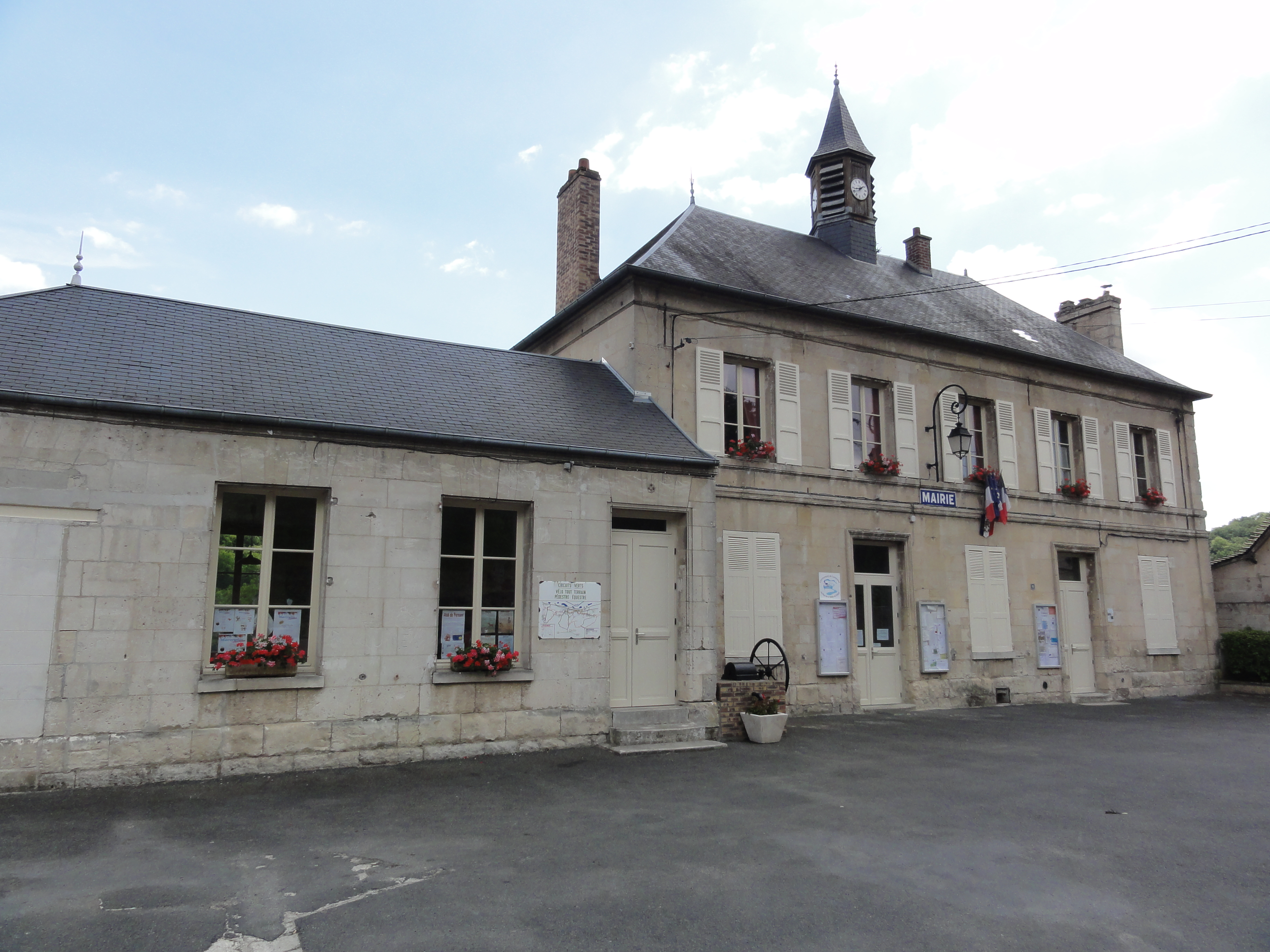 Pernant (Aisne) mairie